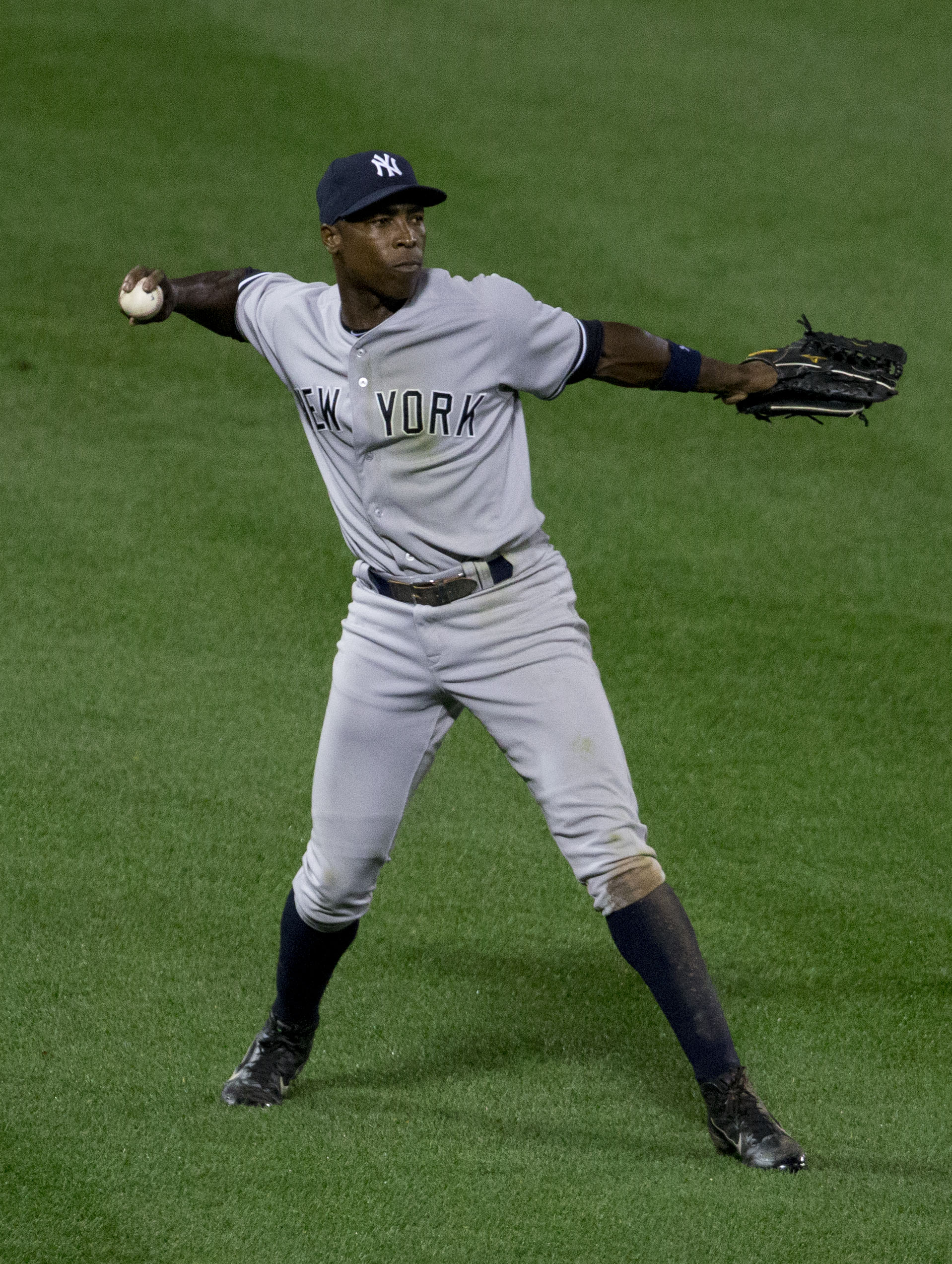 Alfonso Soriano - Yankees at Orioles 09/12/13